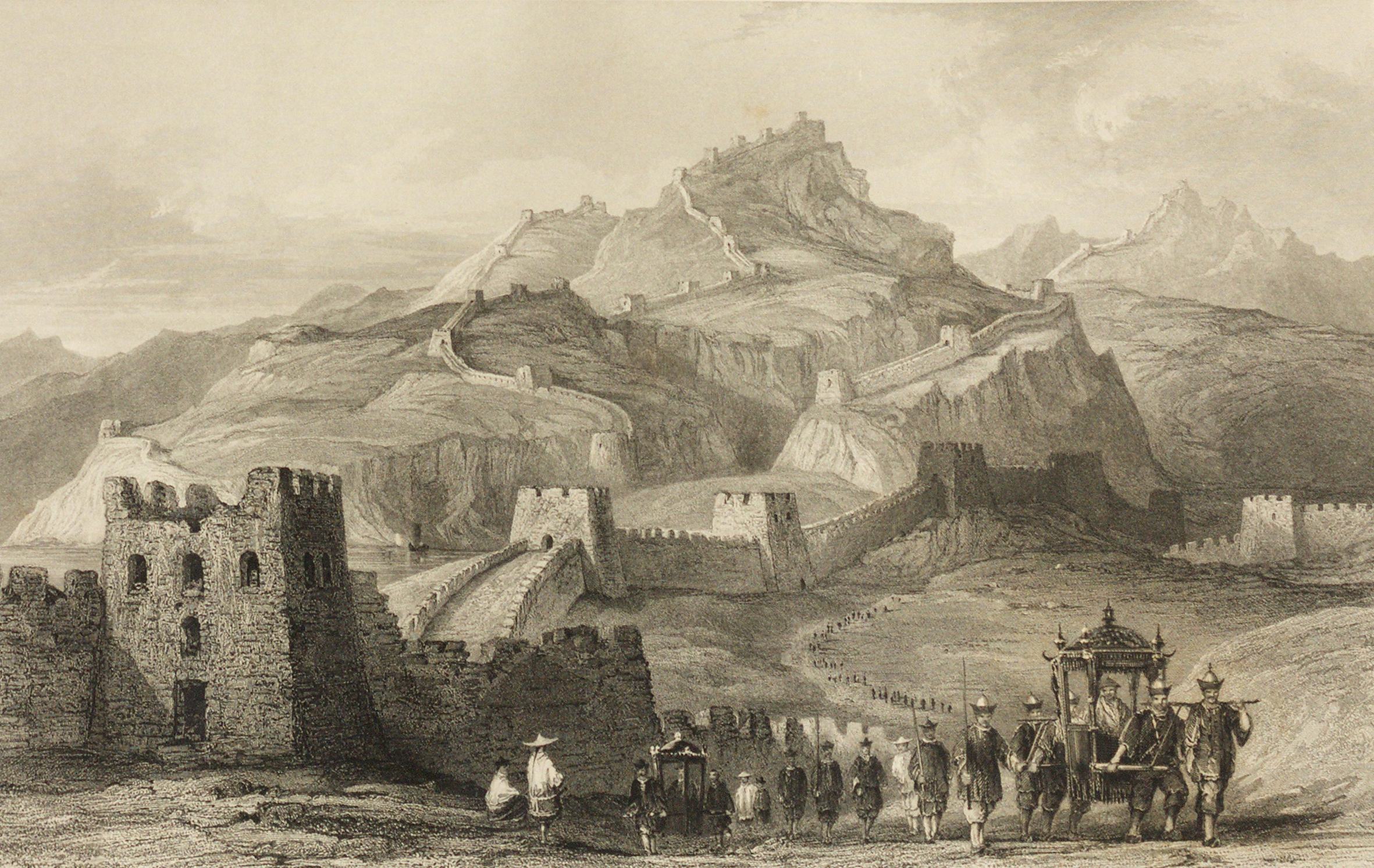 Illustration from French translation of the 1843 book.